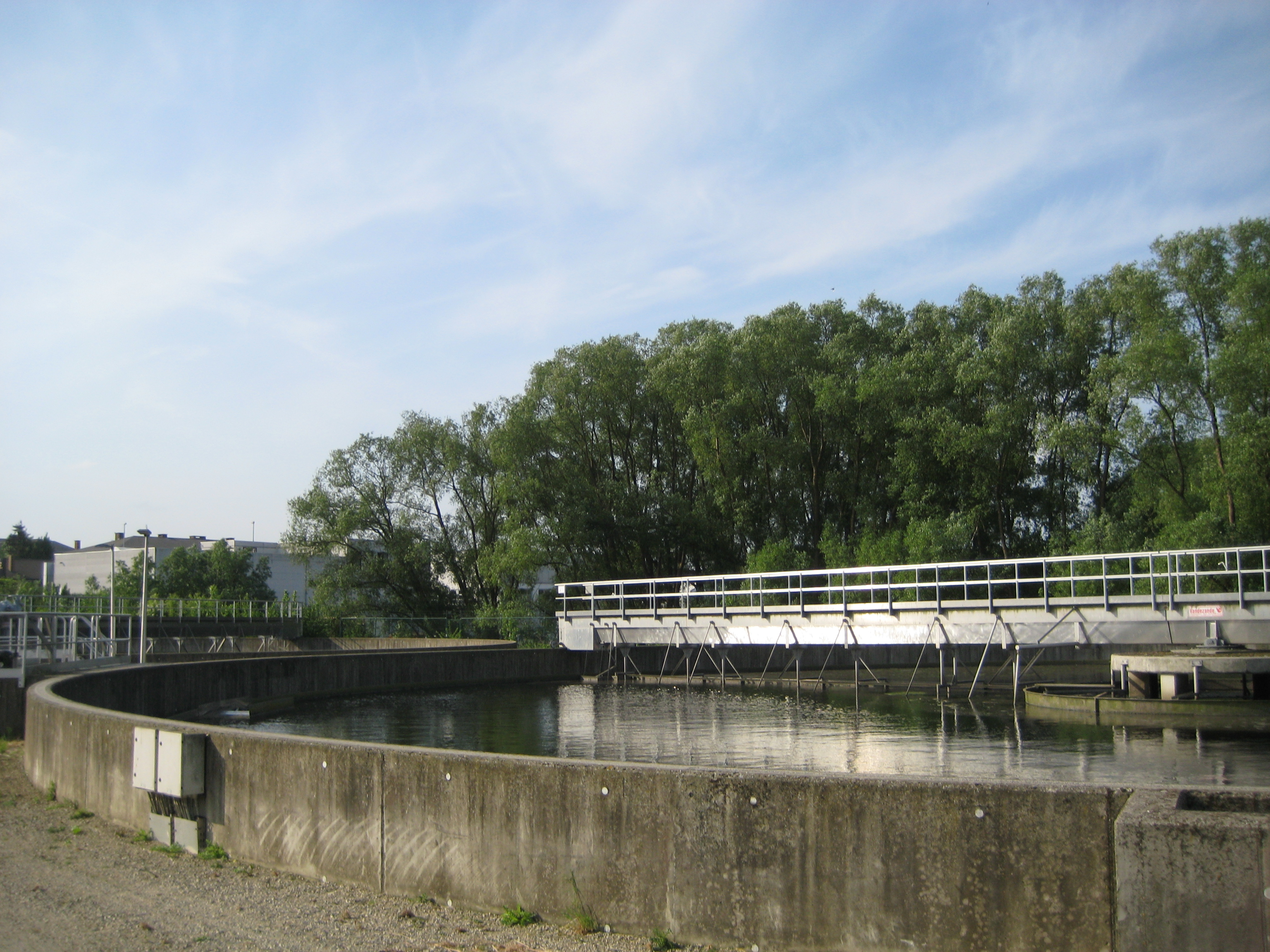 Secondary clarifier on waste water treatment Harelbeke (Belgium)